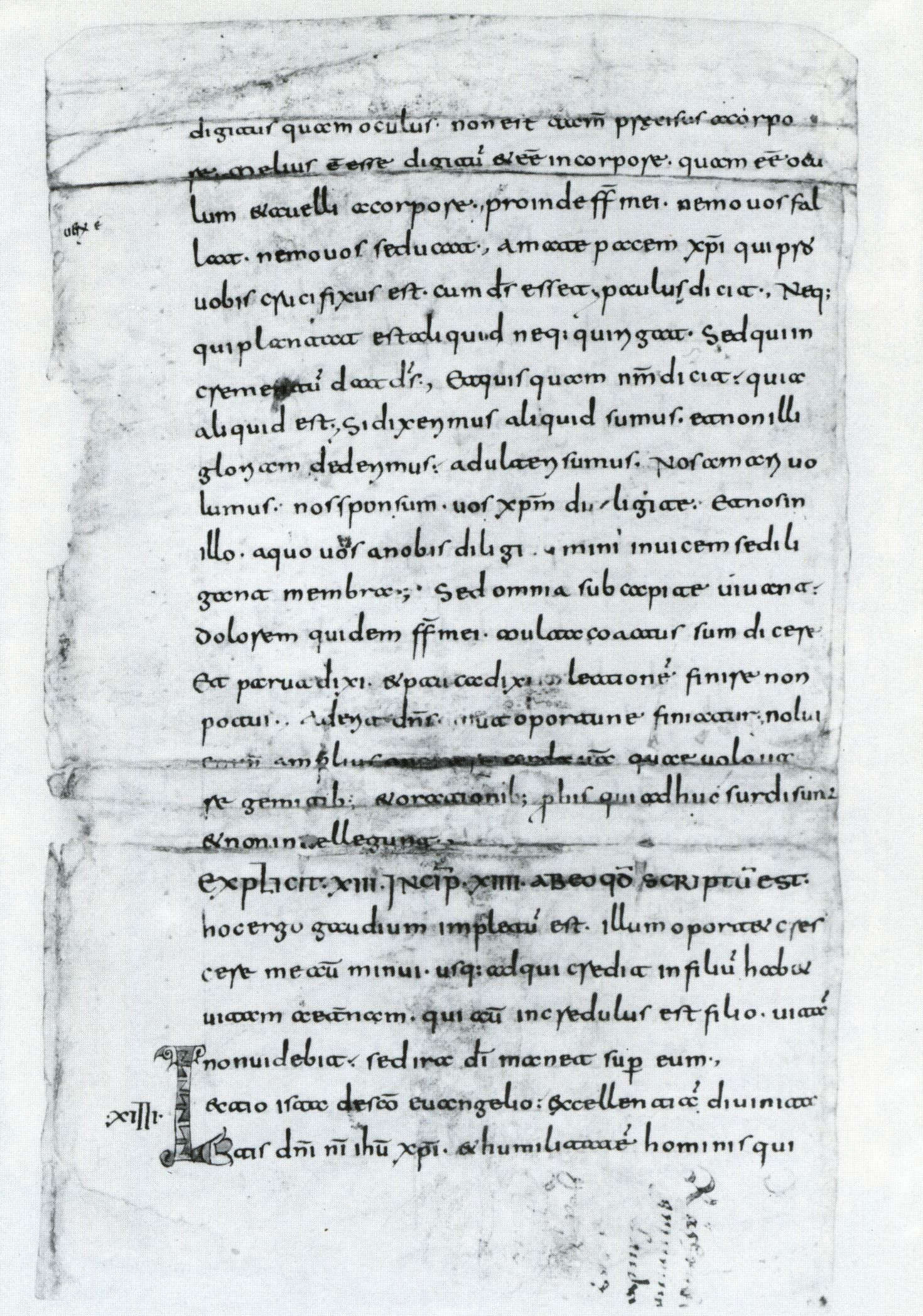 Augustine of Hippo, Treatise on the Gospel of John. Script: Raetic. Manuscript: Chur, Staatsarchiv Graubünden A I 2b/Nr. 1.